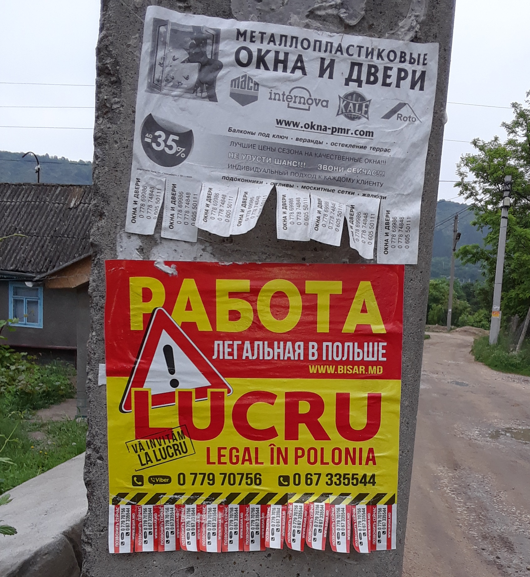 Job ad in Camenca, Moldova